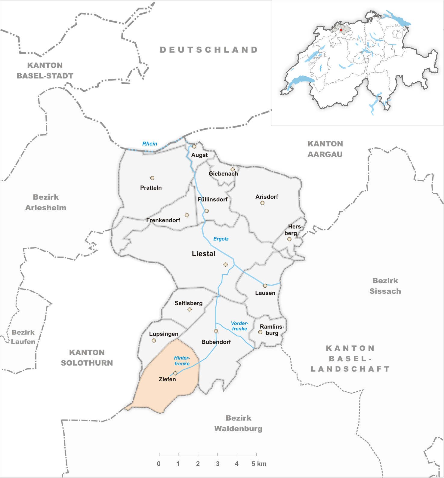 Municipality Ziefen